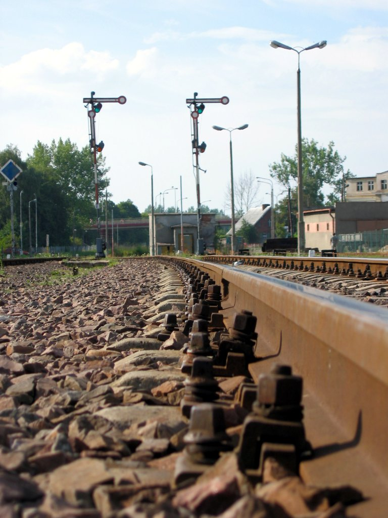 Rail tracks and mechanical semaphore in the background. Taken in Kościerzyna, 2004